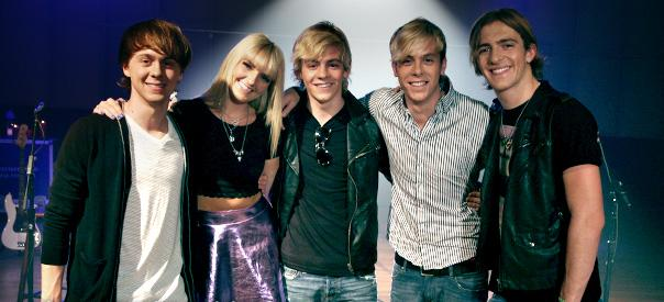 R5 live in Walmart Soundcheck.